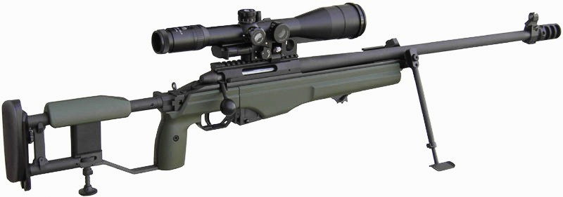 Sako TRG folding stock + Zeiss 3-12x56 SSG P.